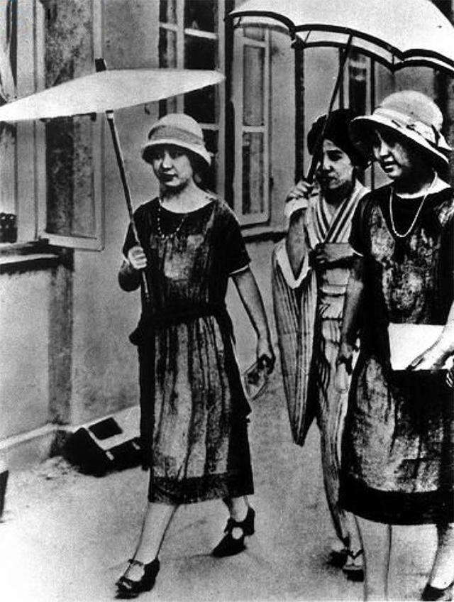 Moga in Tokyo